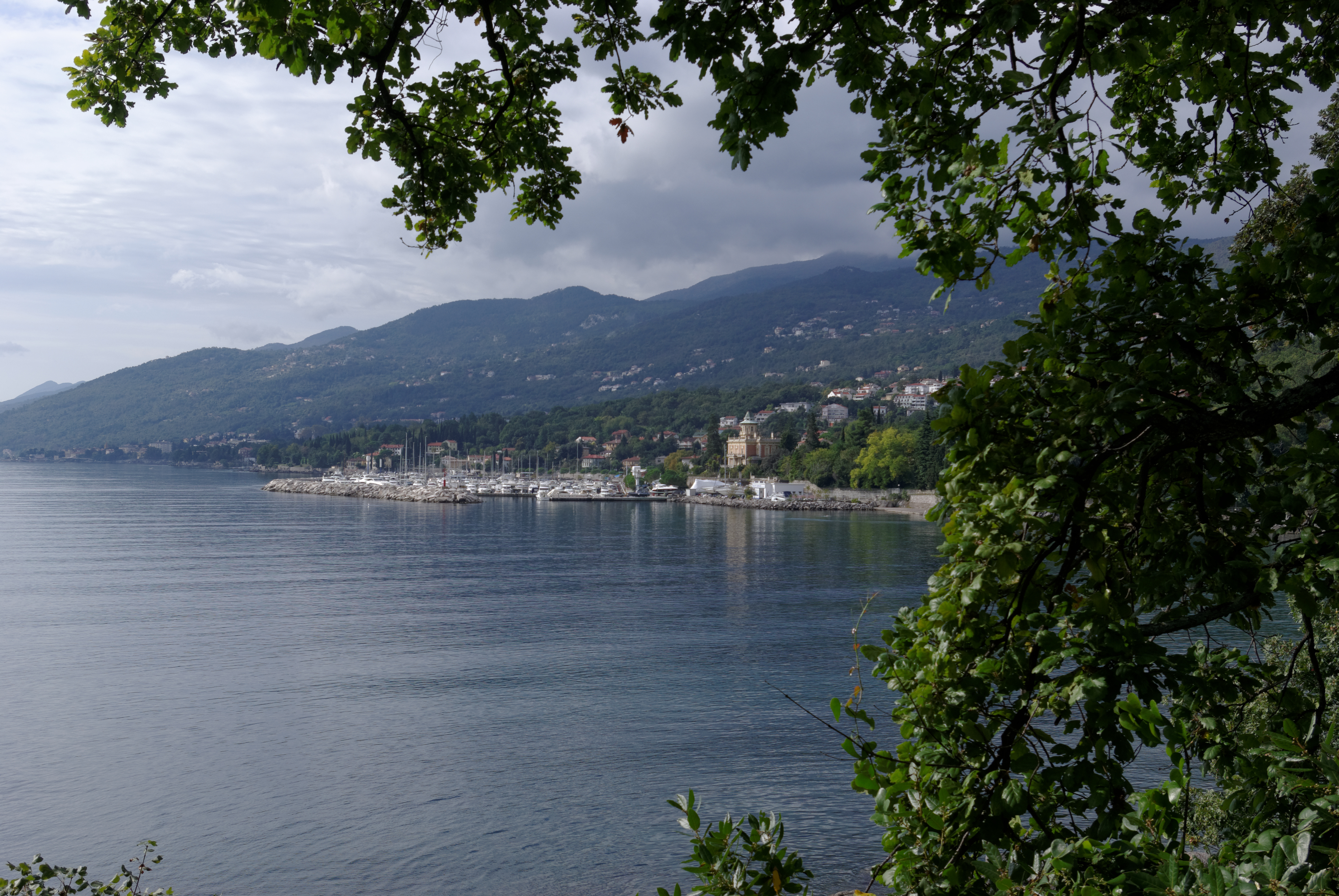 Croatia, Opatija - Ičići, Lungomare